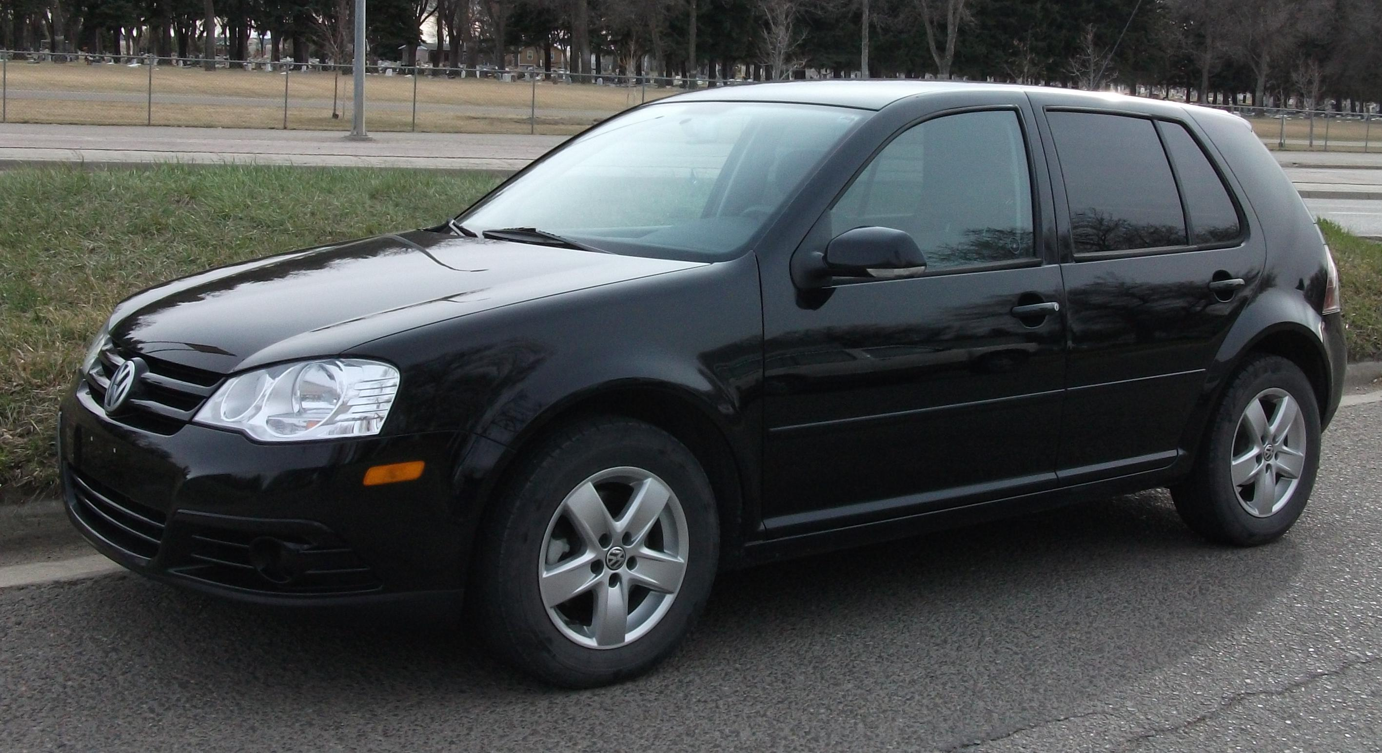 The Volkswagen Golf City is a Canadian variant which uses the previous generation chassis with updated styling. Only available with the 2.0L four cylinder engine.